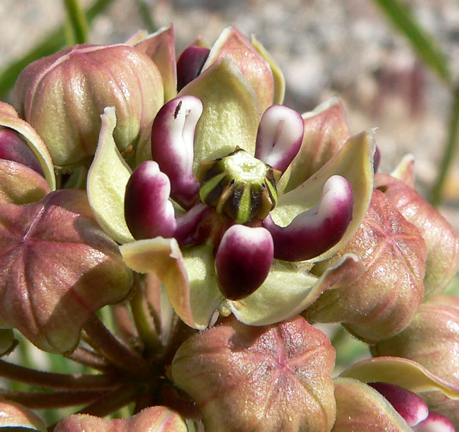 Asclepias asperula in Red Rock Canyon, Nevada